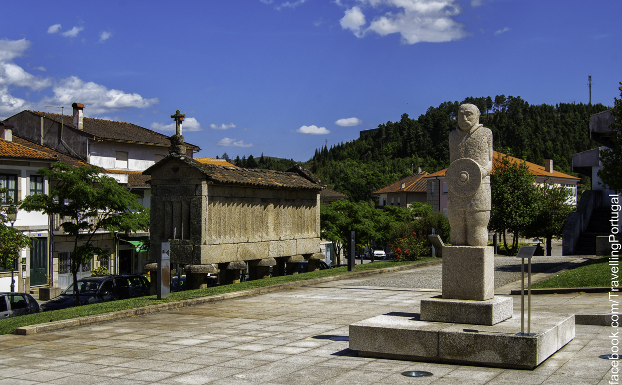 boticas, tras os montes, terras de barroso, portugal, norte